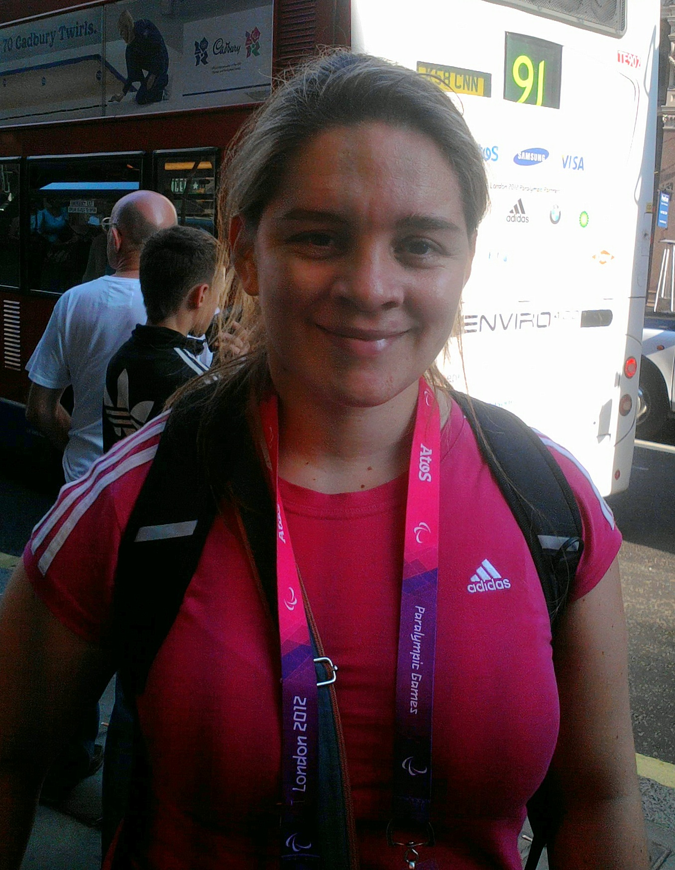 Giselle Munoz Argentinian Paralympic Table Tennis at The London 2012 Paralympic Games